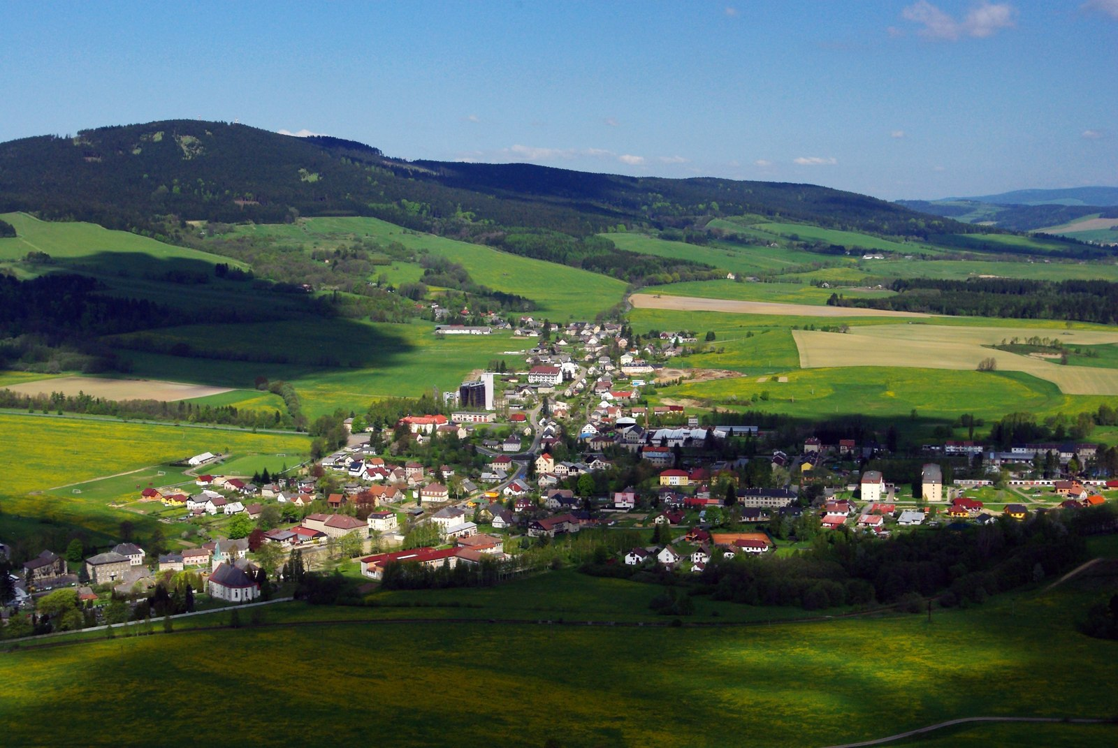 A view of Cervena Voda in Czechia.